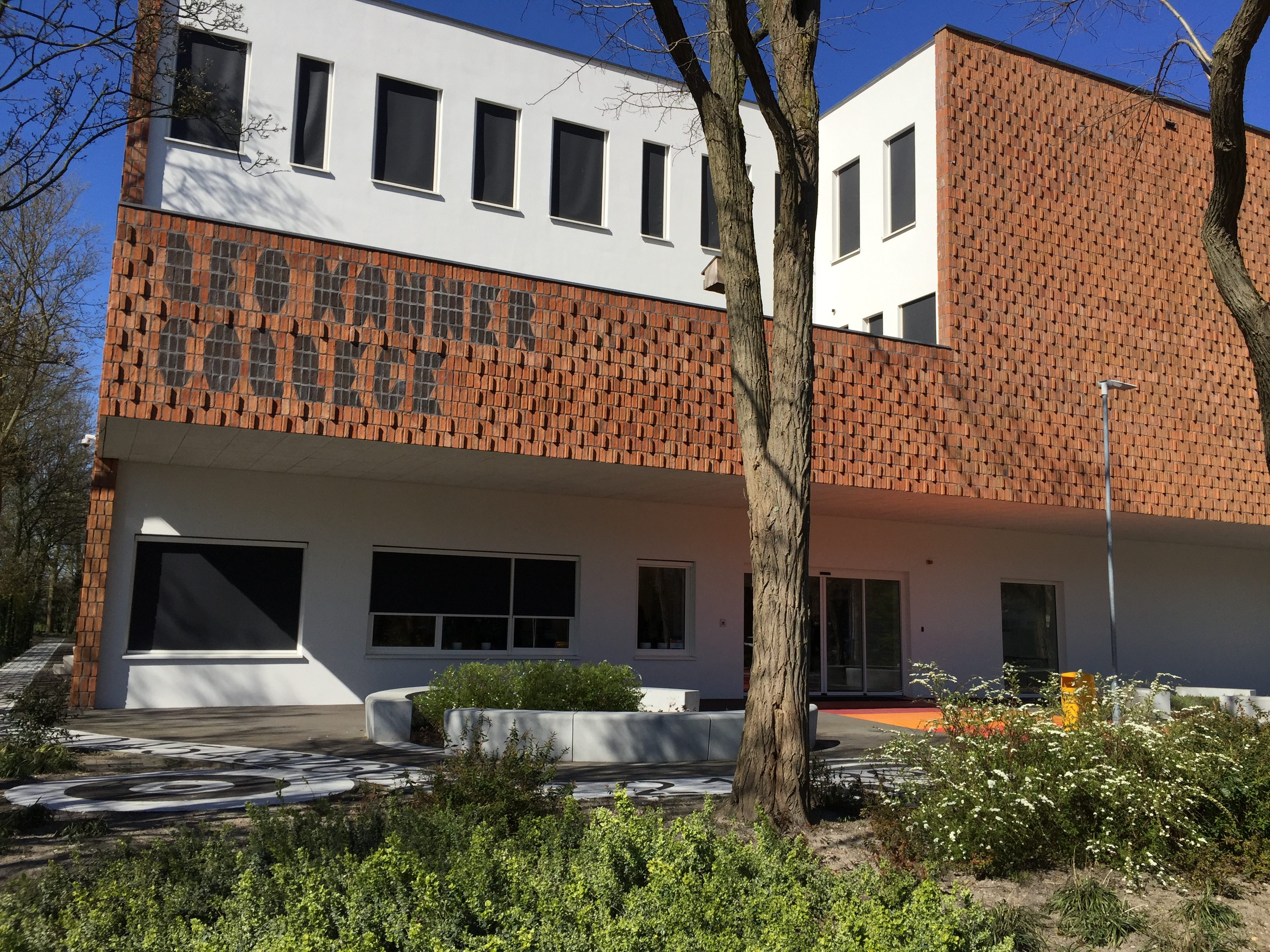 Leo Kanner College, school in Leiden